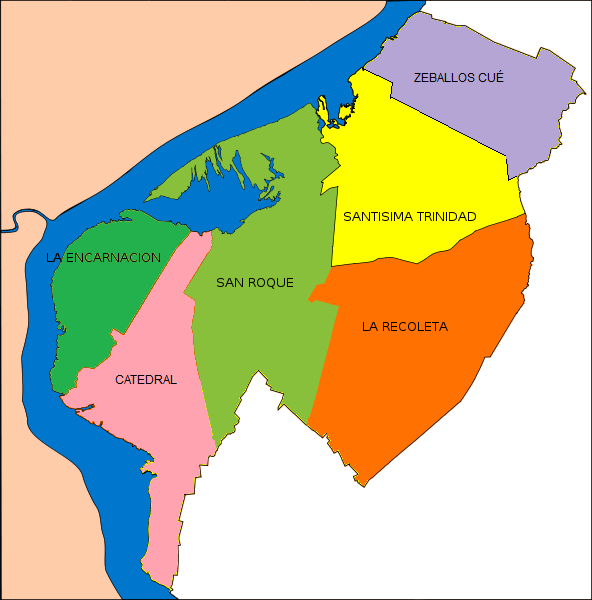 Asunción's districts